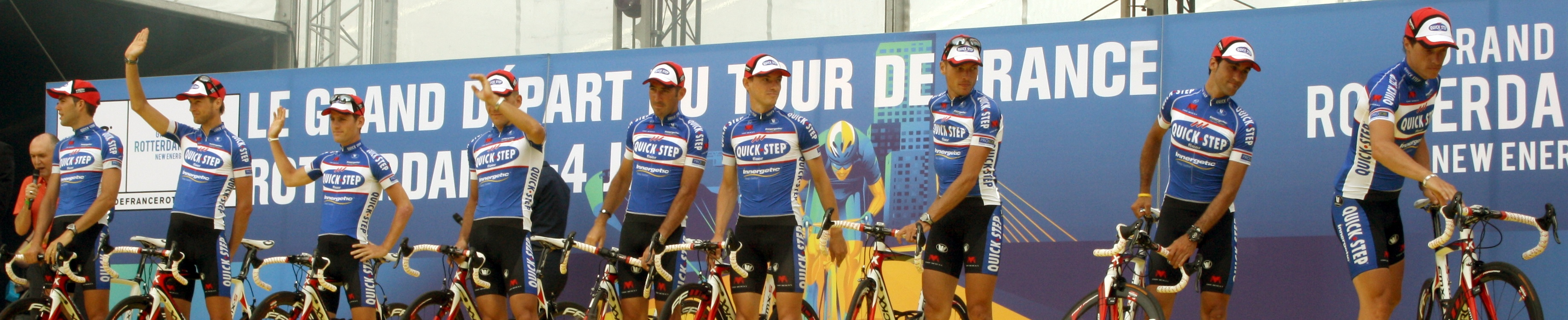 Quick Step at the team presentation of the 2010 Tour de France in Rotterdam